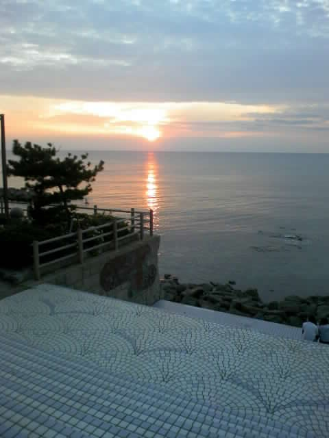 Sunset at Sasagawanagare in Niigata prefecture in Japan.